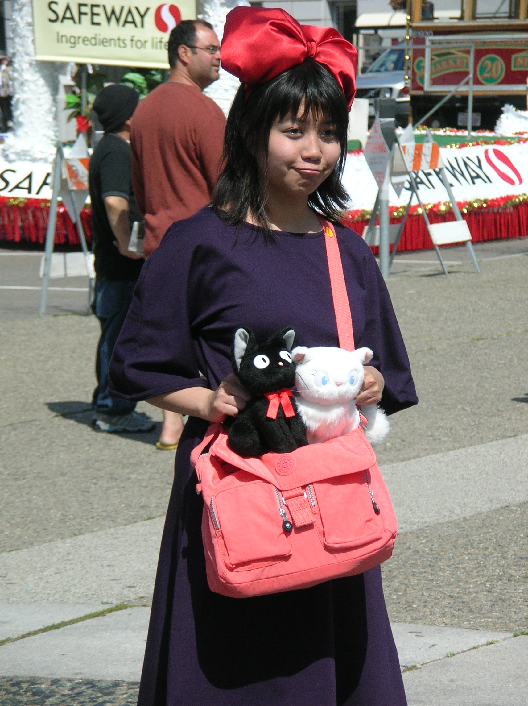 A cosplayer portraying Kiki from Kiki’s Delivery Service competing in the costume contest at the Northern California Cherry Blossom Festival.